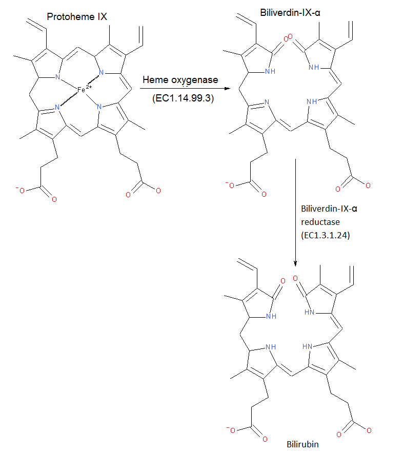 Molecular pathway summary